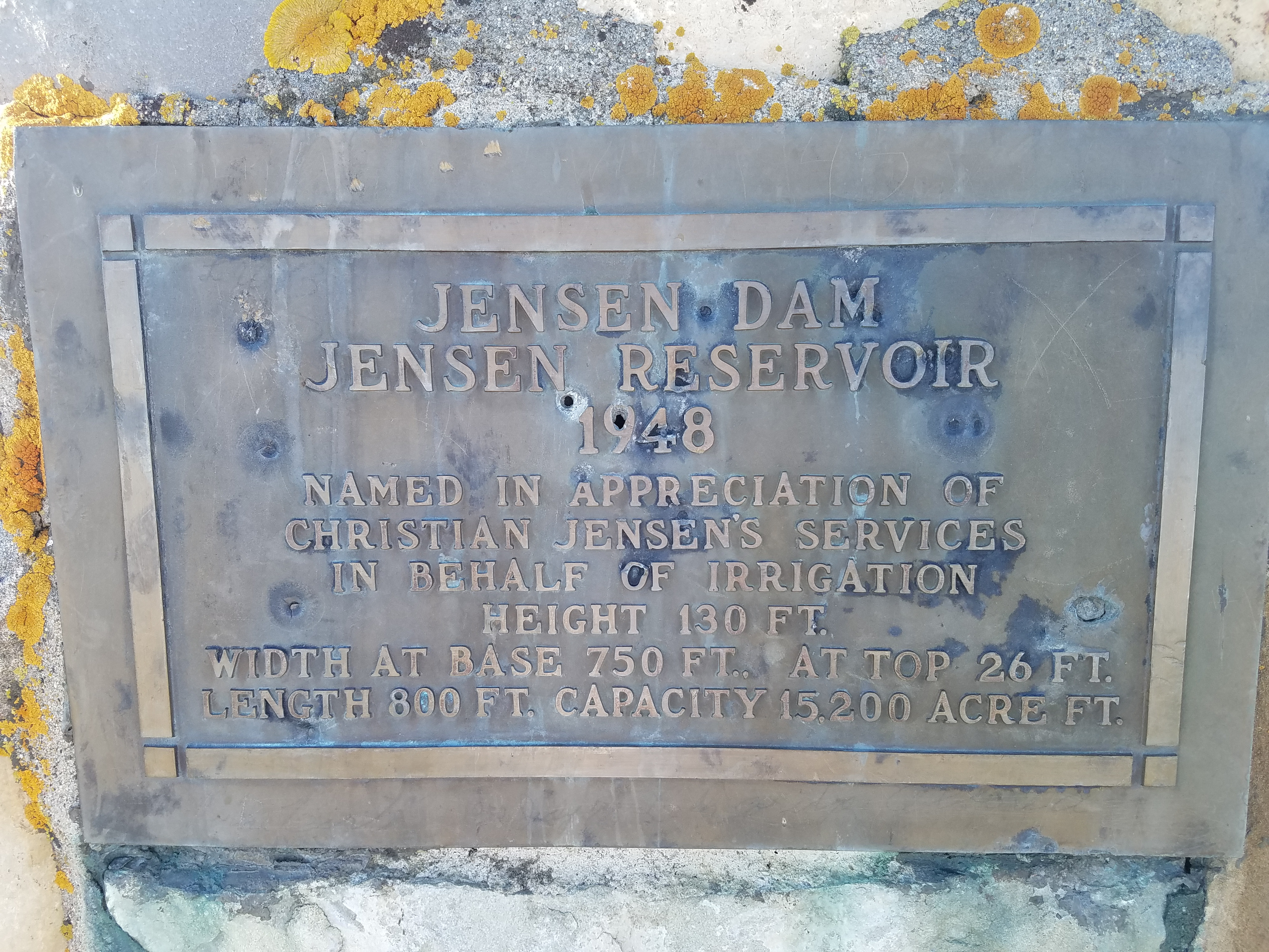 Jensen Dam Memorial Plaque